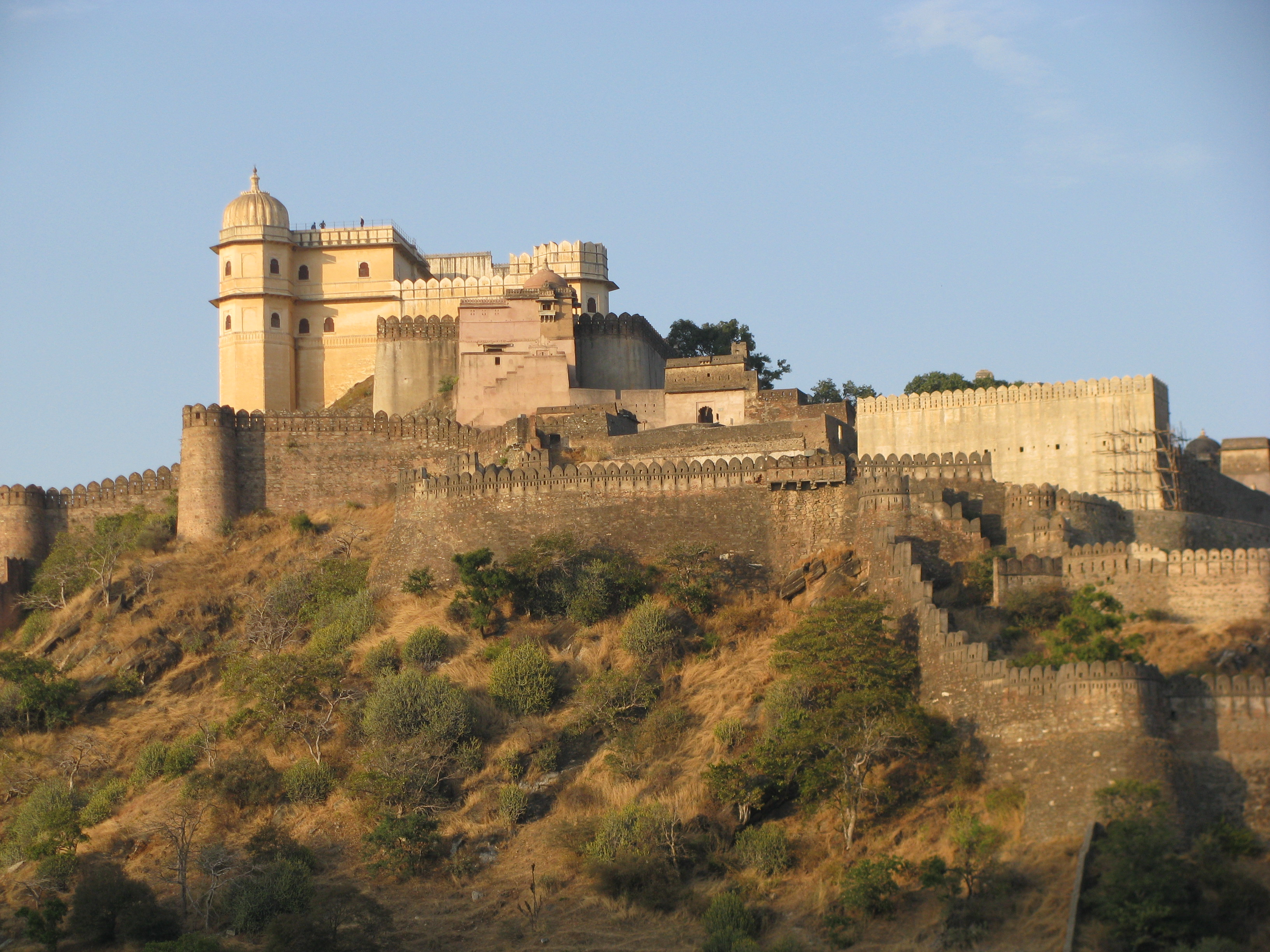 Kumbhalgarh Fort just before Sunset. The tower rising into the sky at the left side is part of Badal Mahal being Maharana Pratap's birthplace.